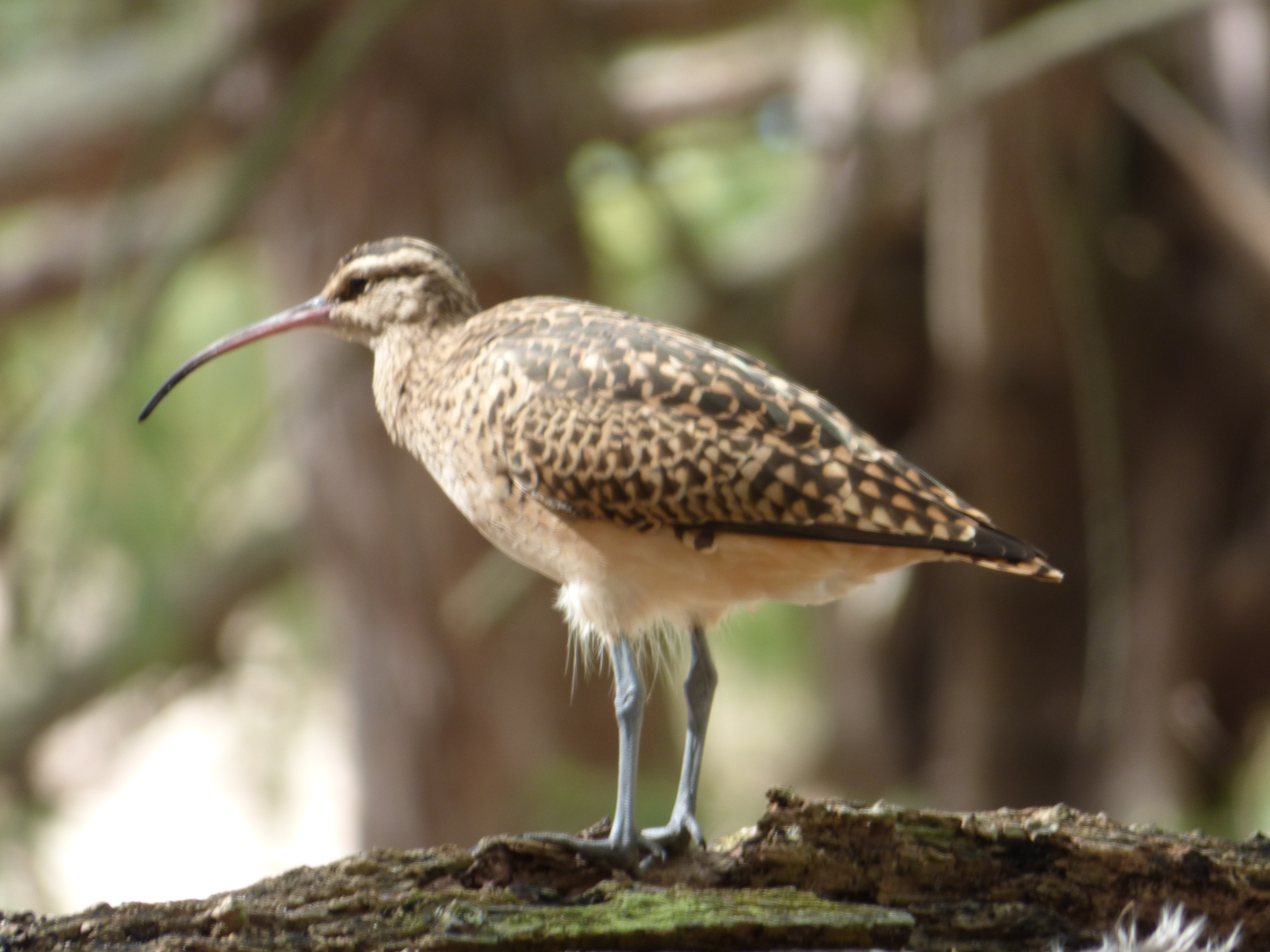 Casuarina equisetifolia (Ironwood) Bristle thighed Curlew at West Beach Sand Island, Midway Atoll, Hawaii. April 01, 2015 #150401-0400 Image Use Policy